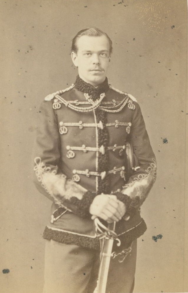 Russian Imperial Family Photo